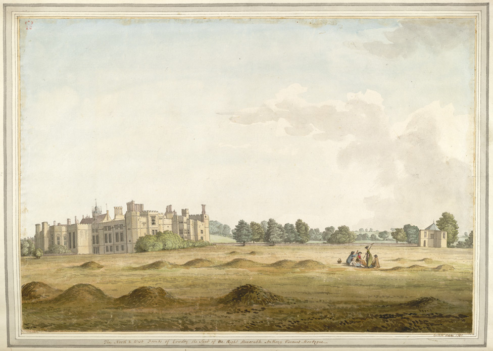 view of Cowdray House from the northwest, West Sussex